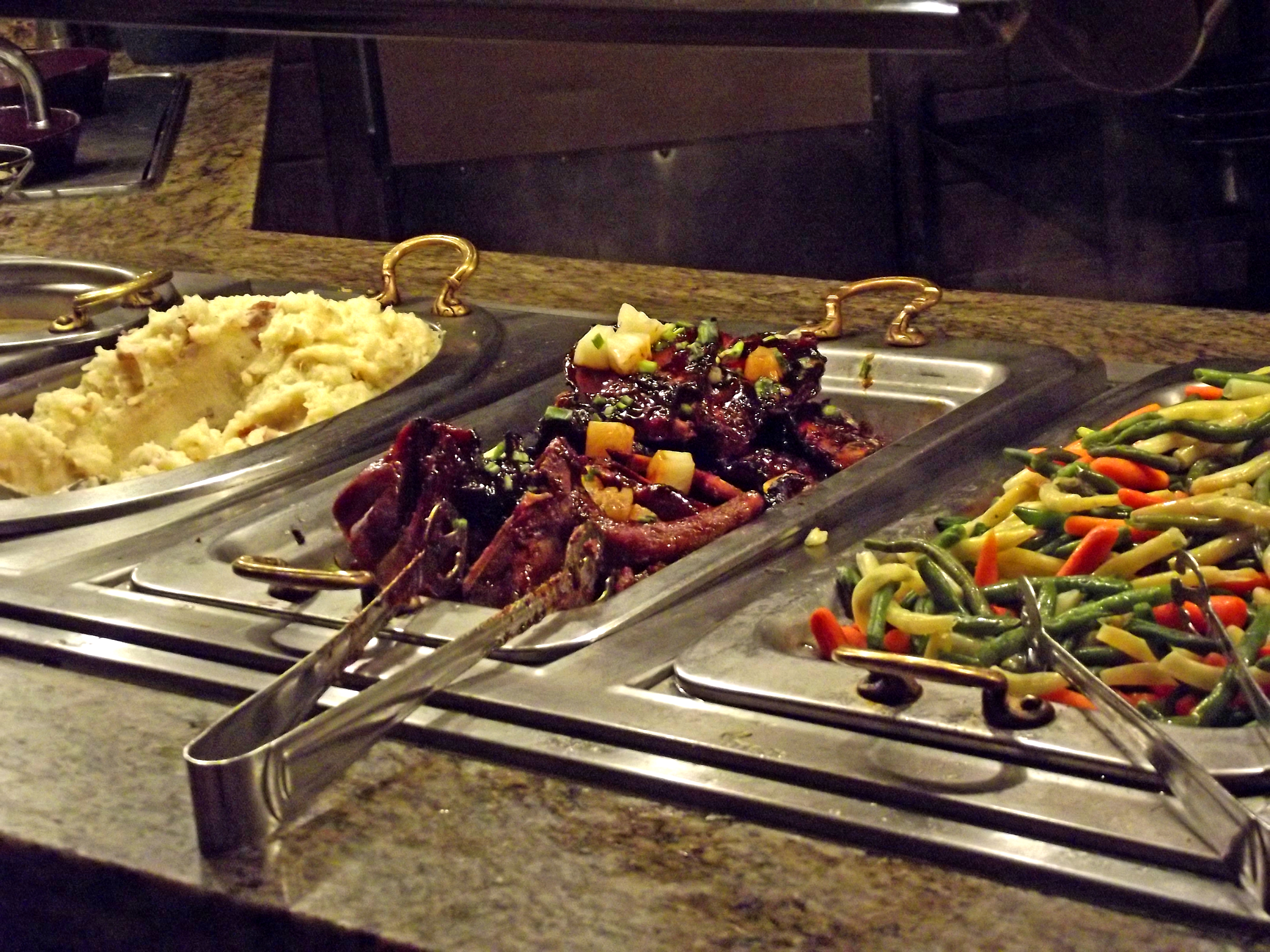 Loaded mashed potatoes, pork chops and string beans at the Carnival World Buffet, The Rio, Las Vegas, Nevada